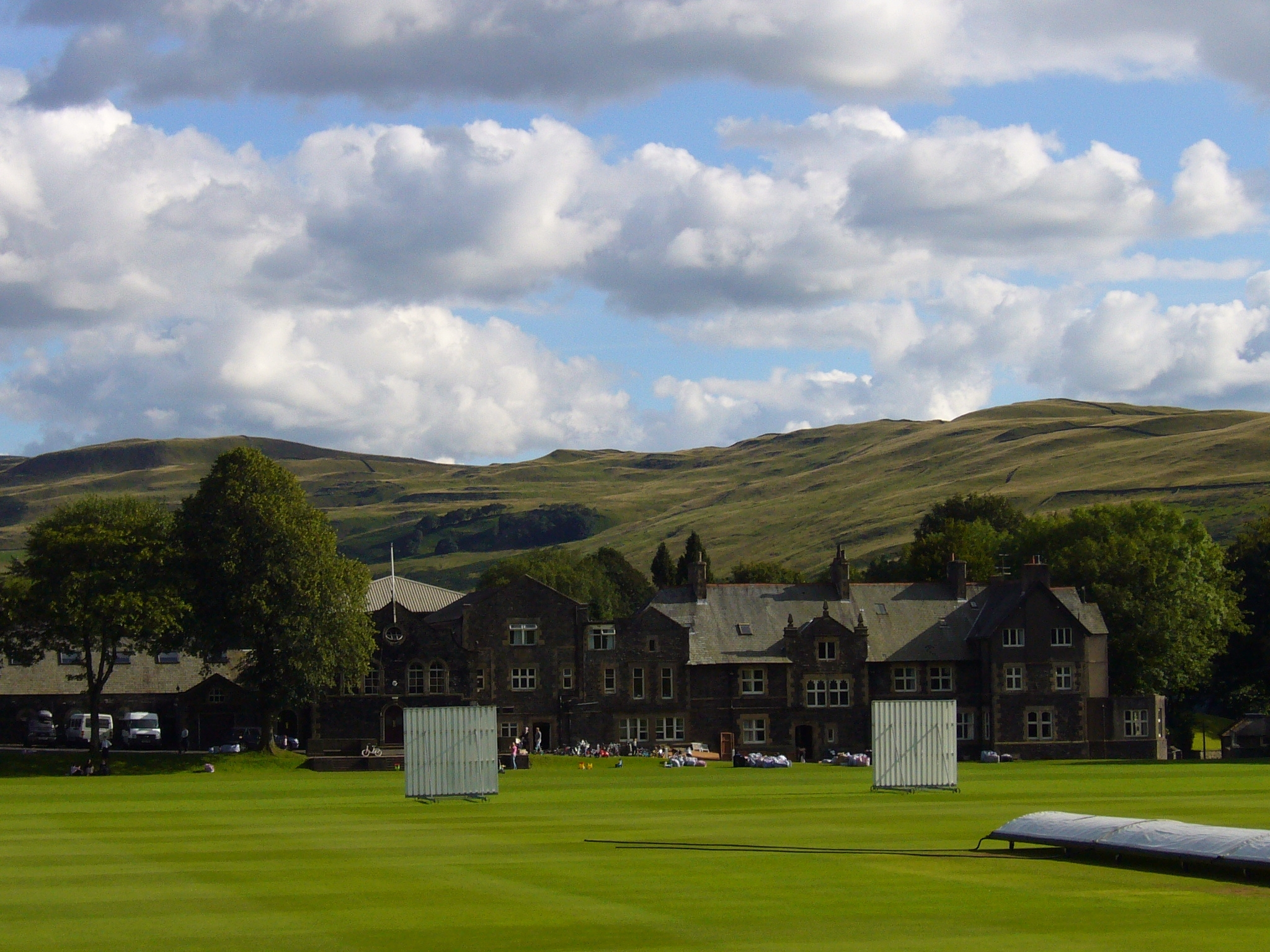 A view of Sedbergh School's playing field